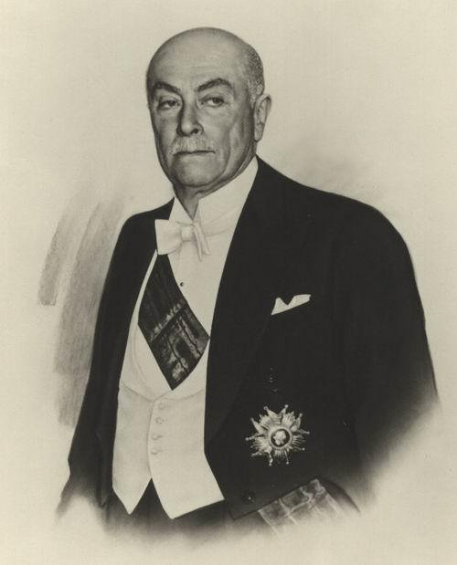 Photo of Count Hubert Pierlot